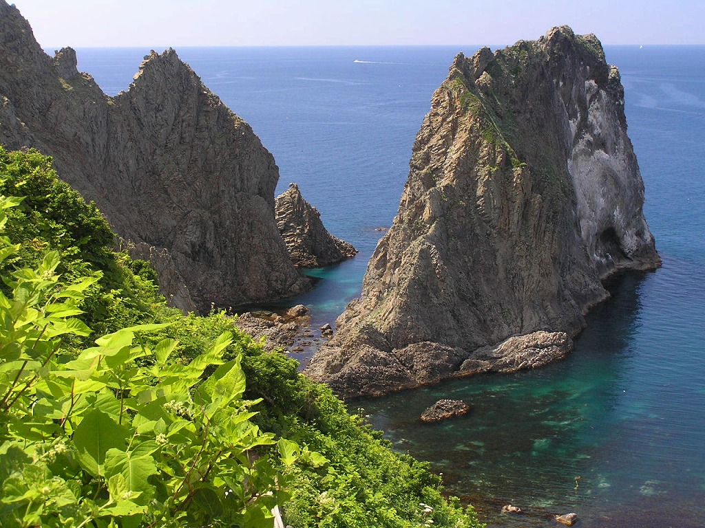 shimamui-coast 島武意海岸